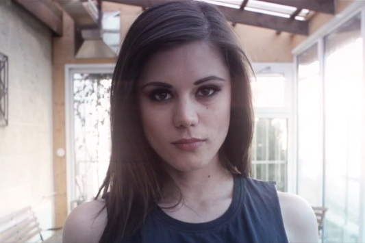 Little Caprice from "Cheers to live" promotional video for Luxus Villa Roma